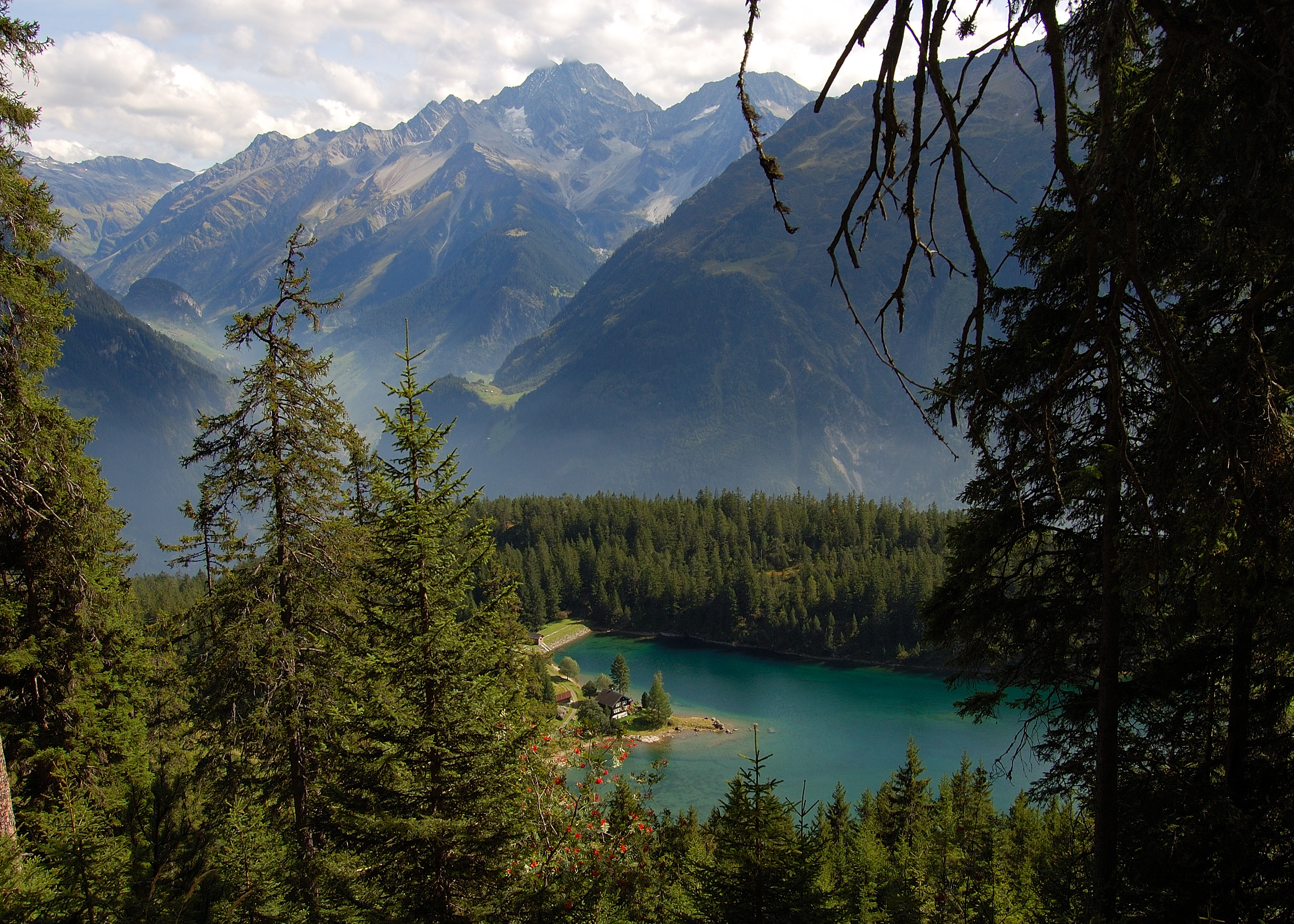 The Arnisee lake in the canton of Uri/Switzerland